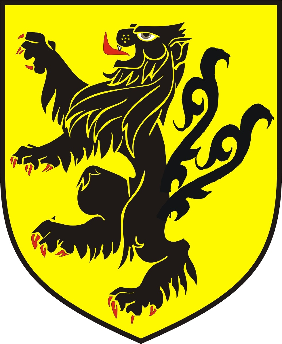 Armorial Bearings of the Robert de Welles, 2nd Baron de Welles